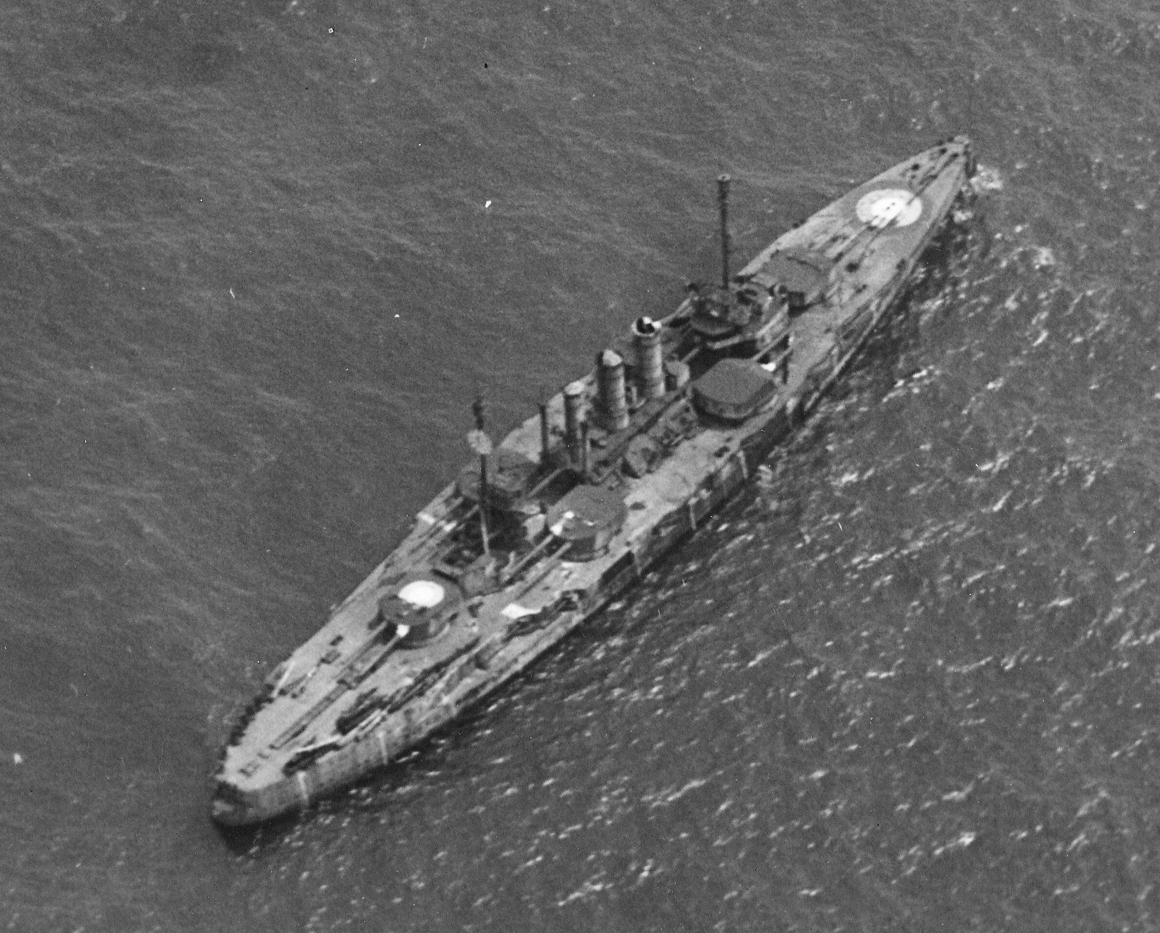 The German battleship Ostfriesland pictured at anchor prior to being attacked by Army Air Service bombers during an evaluation of aerial bombardment of ships off the Virginia Capes. Note the targets visible on the ship.